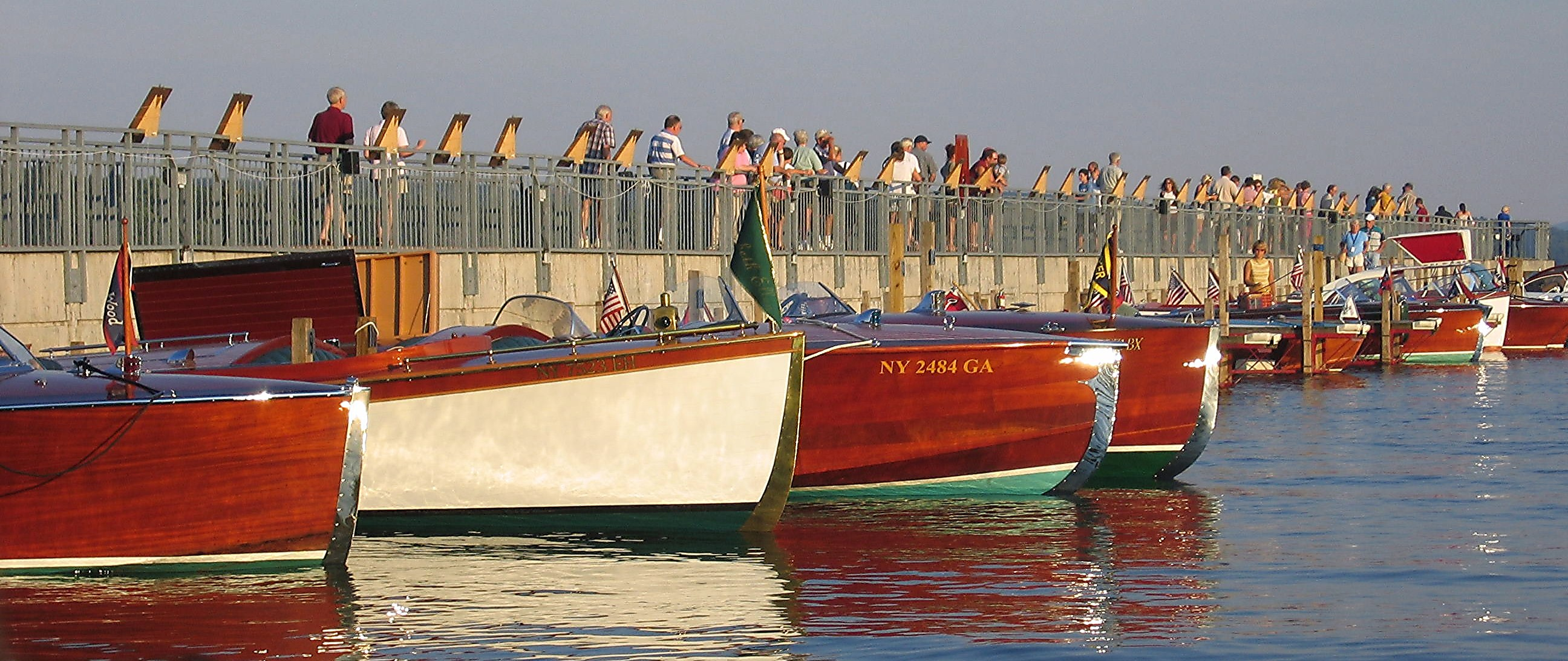 Residents and tourists stroll along Skaneateles’ pier for the best view of antique boats during Skaneateles’ annual Antique and Classic Boat Show.